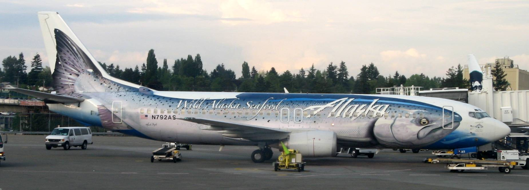 Alaska Airlines Boeing 737 (N792AS) in "Wild Salmon" colors. Taken at Seattle Tacoma Airport on the way home to Anchorage, May 2008.